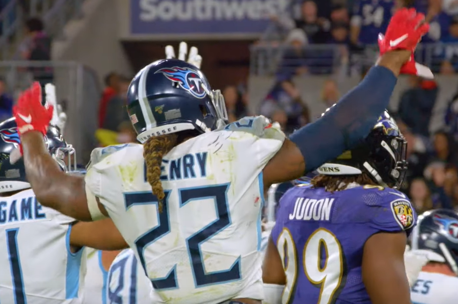 Derrick Henry in 2020. Image from video Two Big 4th Down Stops & Ensuing TDs vs. Ravens | Beneath the Surface, ~ 02:11.